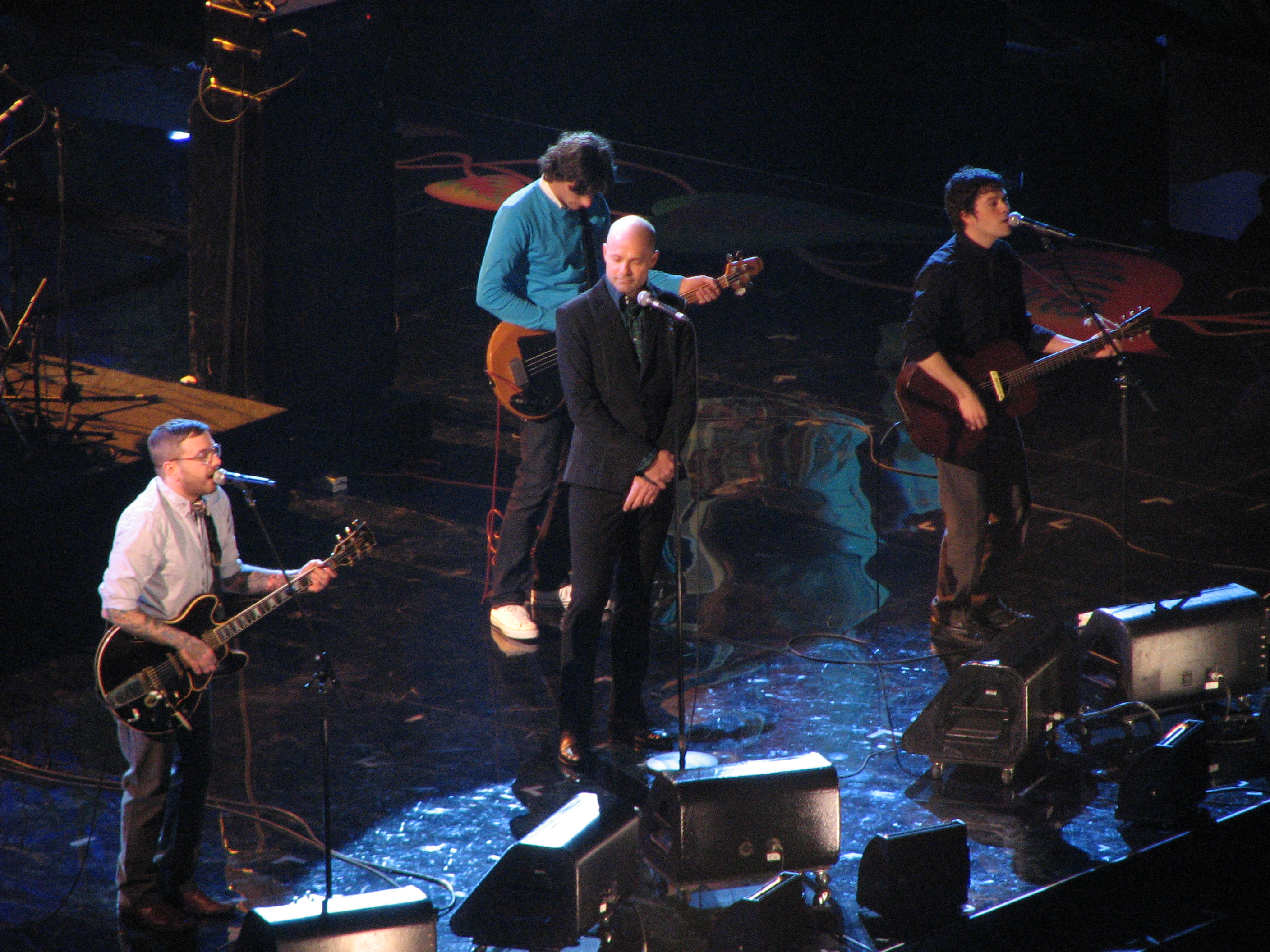 City and Colour (Dallas Green left) with Gord Downie of the Tragically Hip (front centre) performing at the 2009 Juno Awards in Vancouver, British Columbia, Canada.